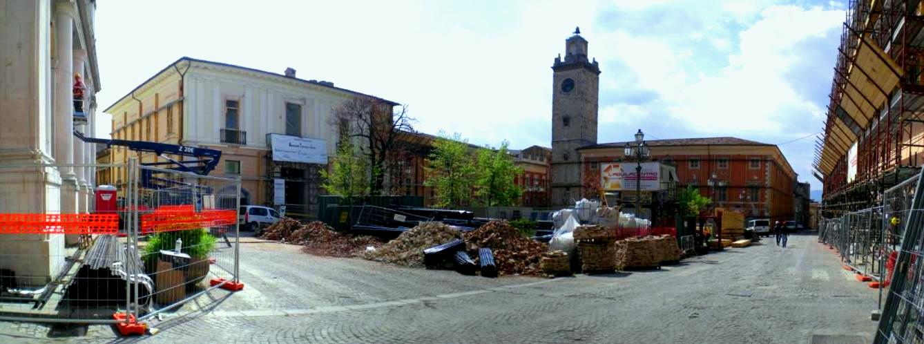 Palace square (Piazza Palazzo) in L'Aquila after 2009 earthquake